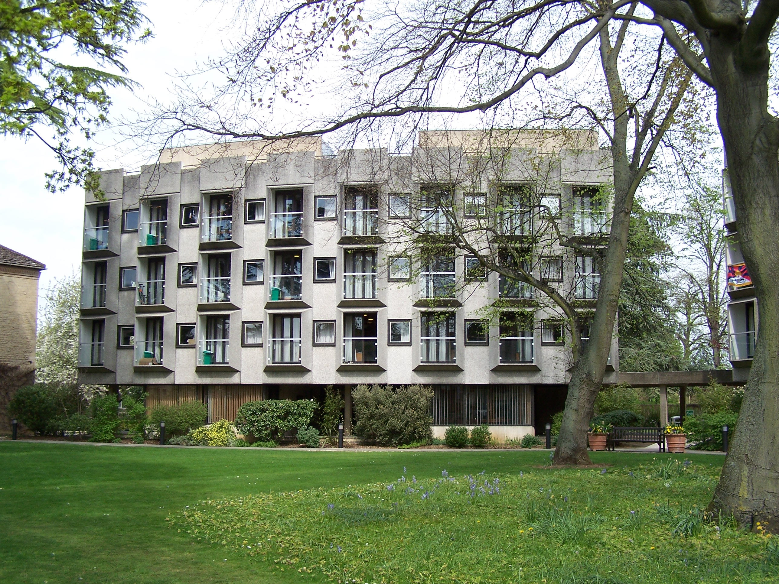 The Wolfson Building, St Anne's College, University of Oxford, viewed from the College quadrangle.